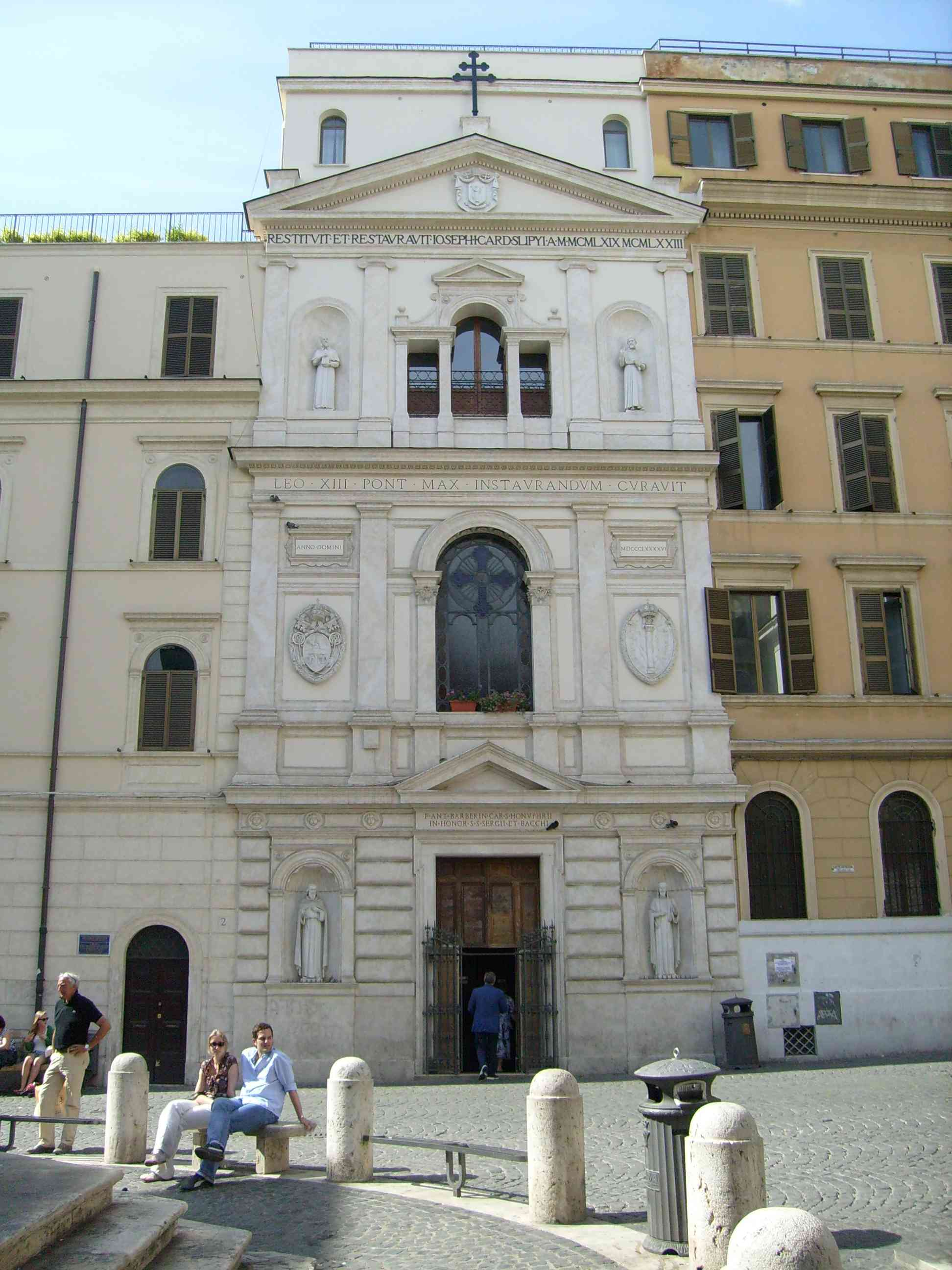 Santi Sergio e Bacco church in Rome.